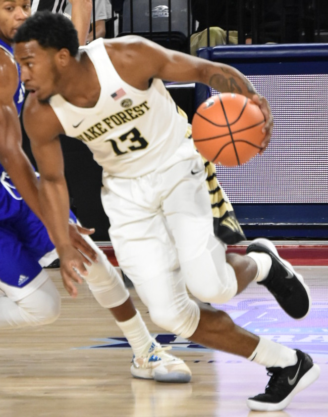 Game # 4 of the 2017 Paradise Jam featured the Wake Forest Demon Deacons and the Drake Bulldogs